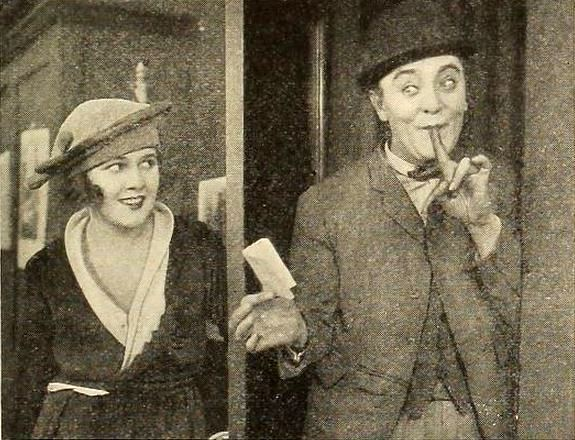 till from the American comedy short film Rip & Stitch: Tailors (1919) with Myrtle Lind and Harry Gribbon, on page 27 of the April 1919 Film Fun.